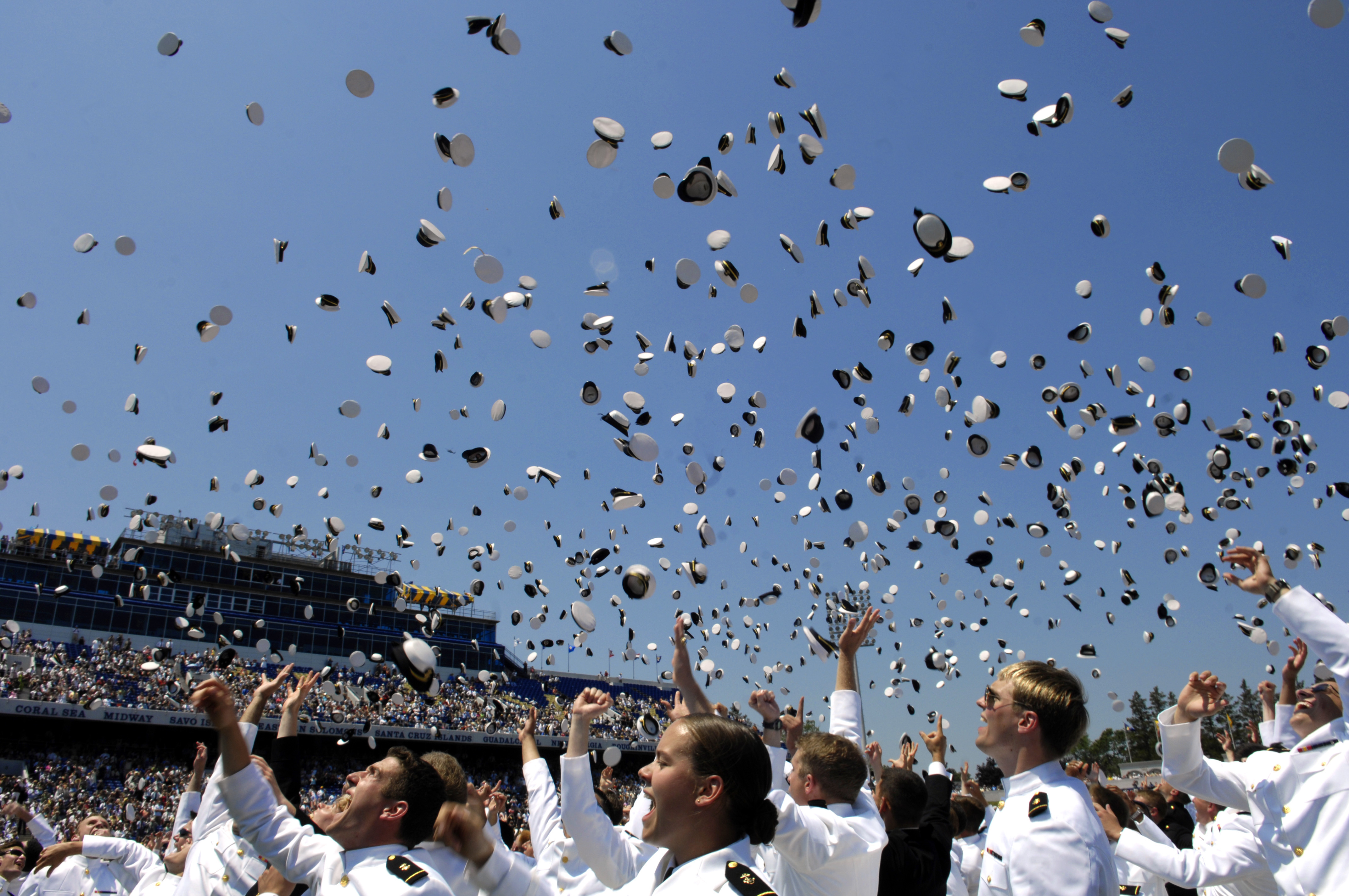 Traditional "hat toss" celebration (original text: Graduates of the U.S. Naval Academy throw their hats into the air at the end of the graduation and commissioning ceremony in Annapolis, Md.)